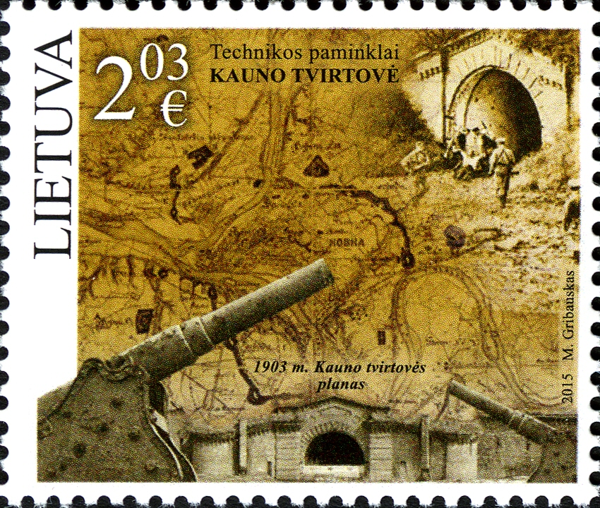 Stamps of Lithuania, 2015